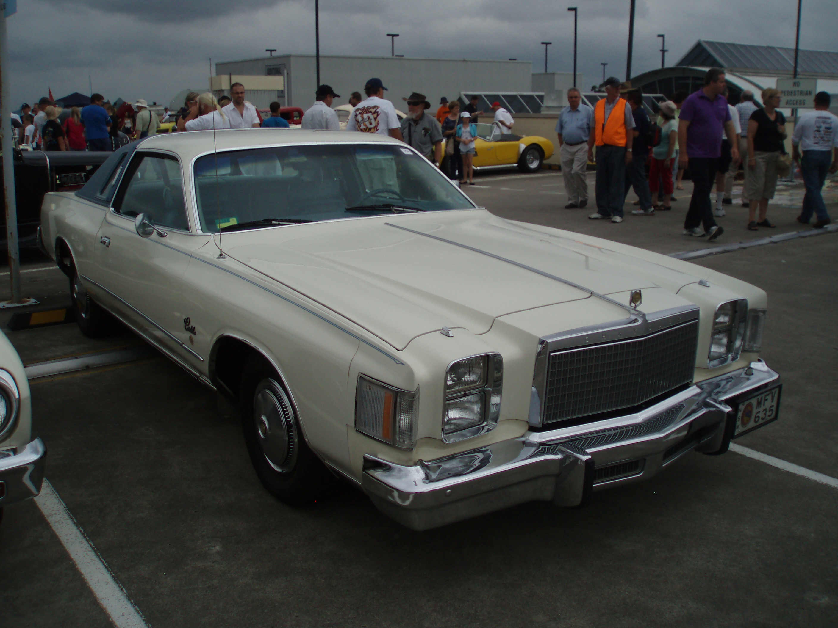 1978 Chrysler Cordoba coupe. Taken at the 2011 New South Wales All American Day, held at Castle Towers Shopping Centre, Castle Hill, Sydney.